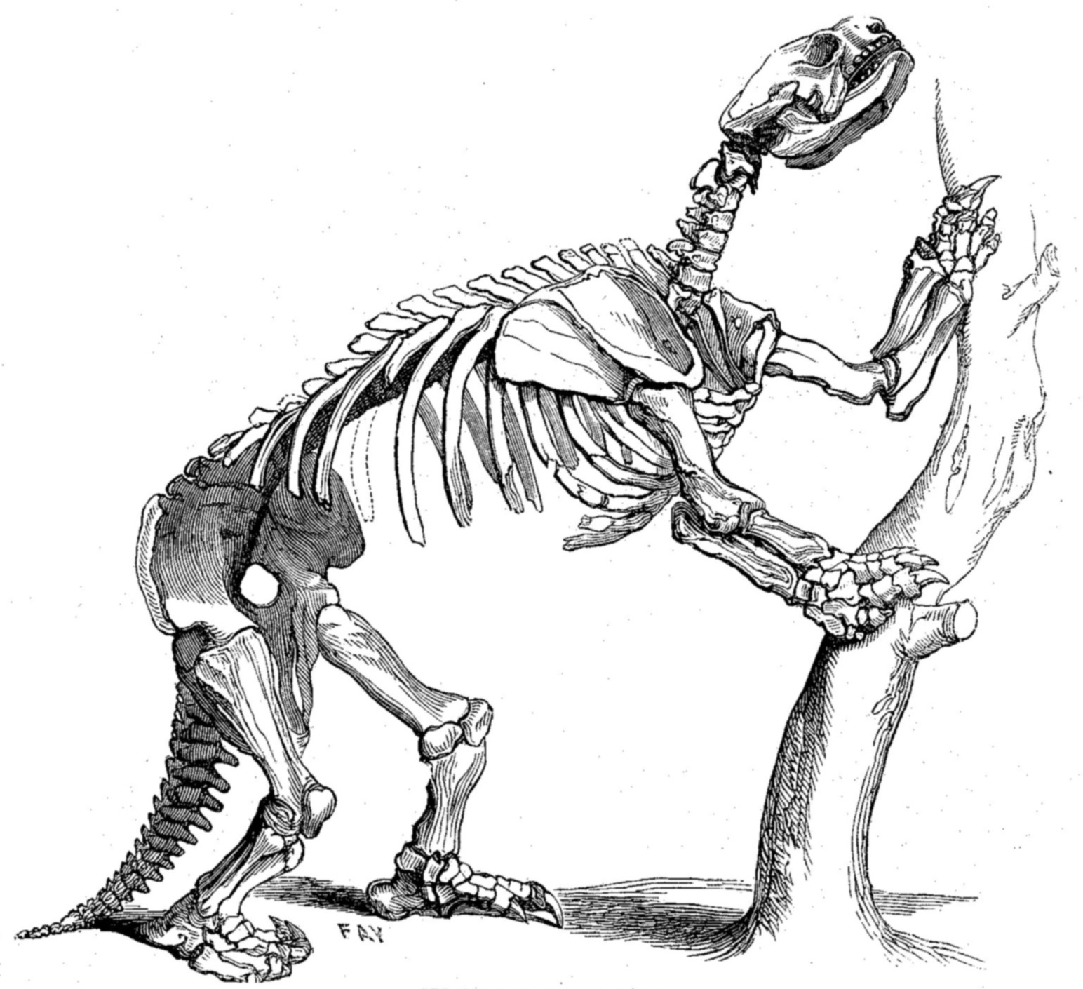 Glossotherium robustum(Syn. Mylodon robustum) skeleton.